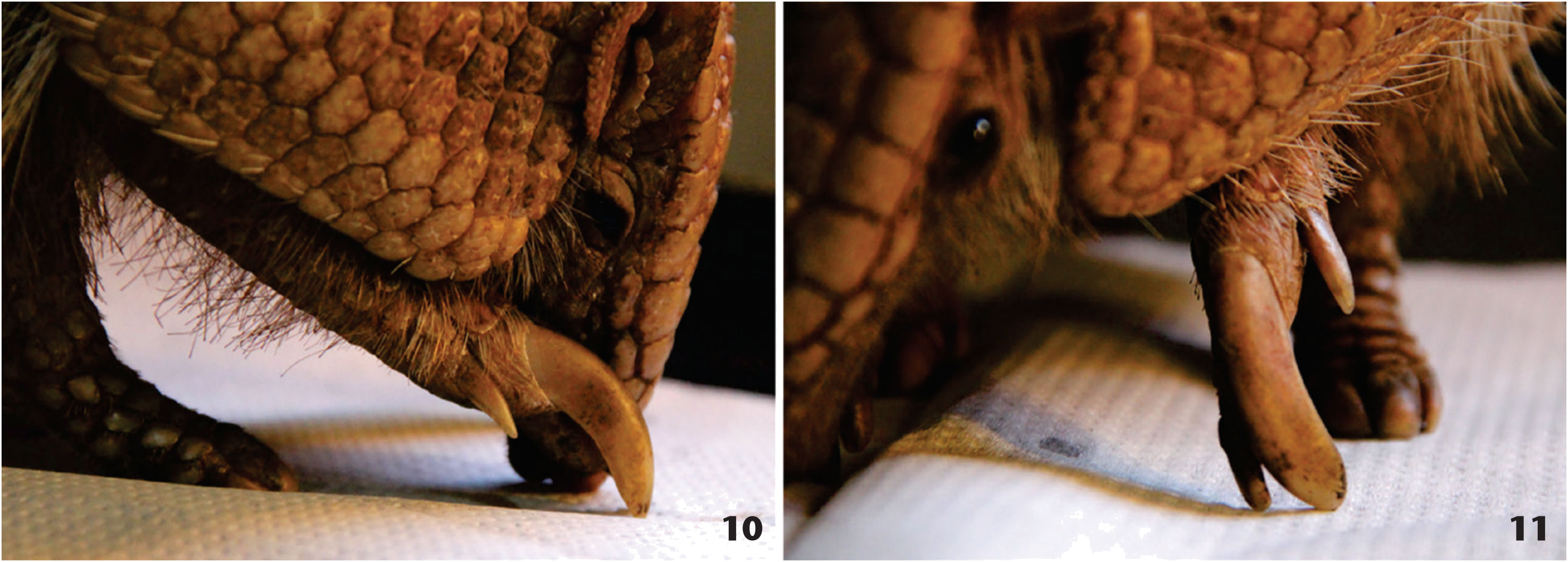 Lateral (10) and frontal view (11) of Tolypeutes matacus front claws